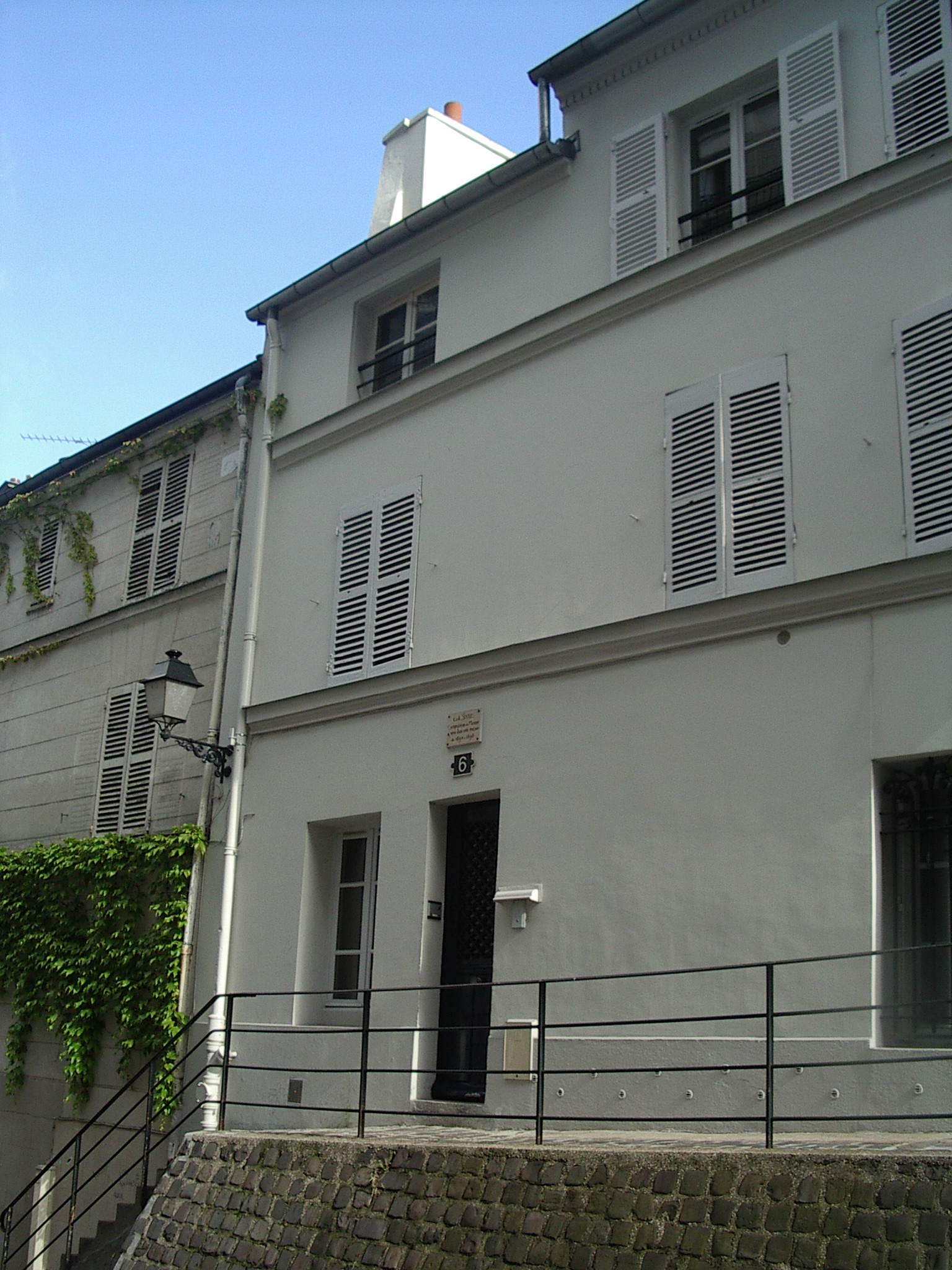 House at 6 Rue Cortot, Montmartre, Paris, home of Erik Satie from 1890 to 1898